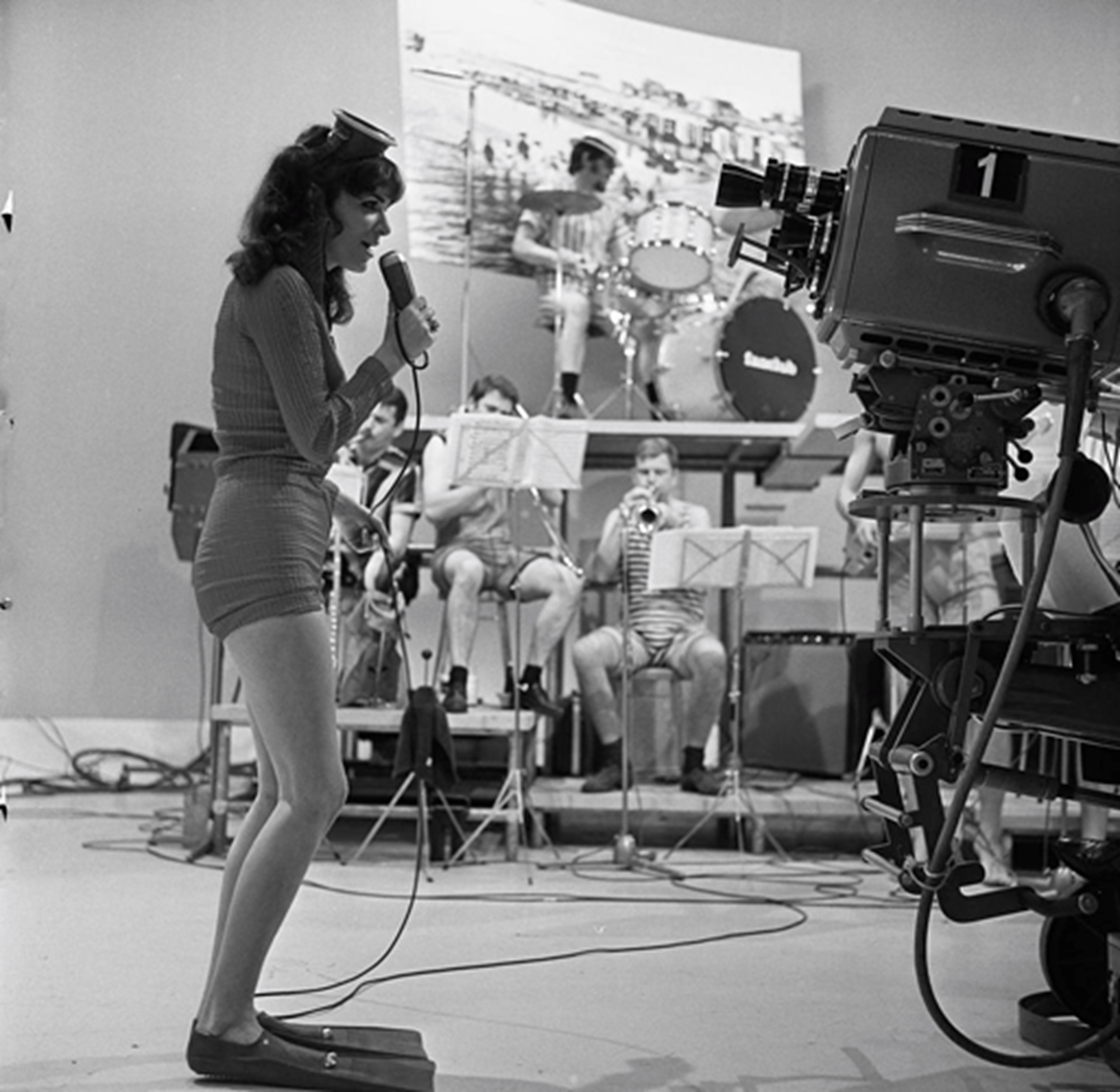 Linda van Dijck (wearing swimfins) singing Don't mess with Bill during recordings of the Dutch TV programme Fanclub, 27 May 1967